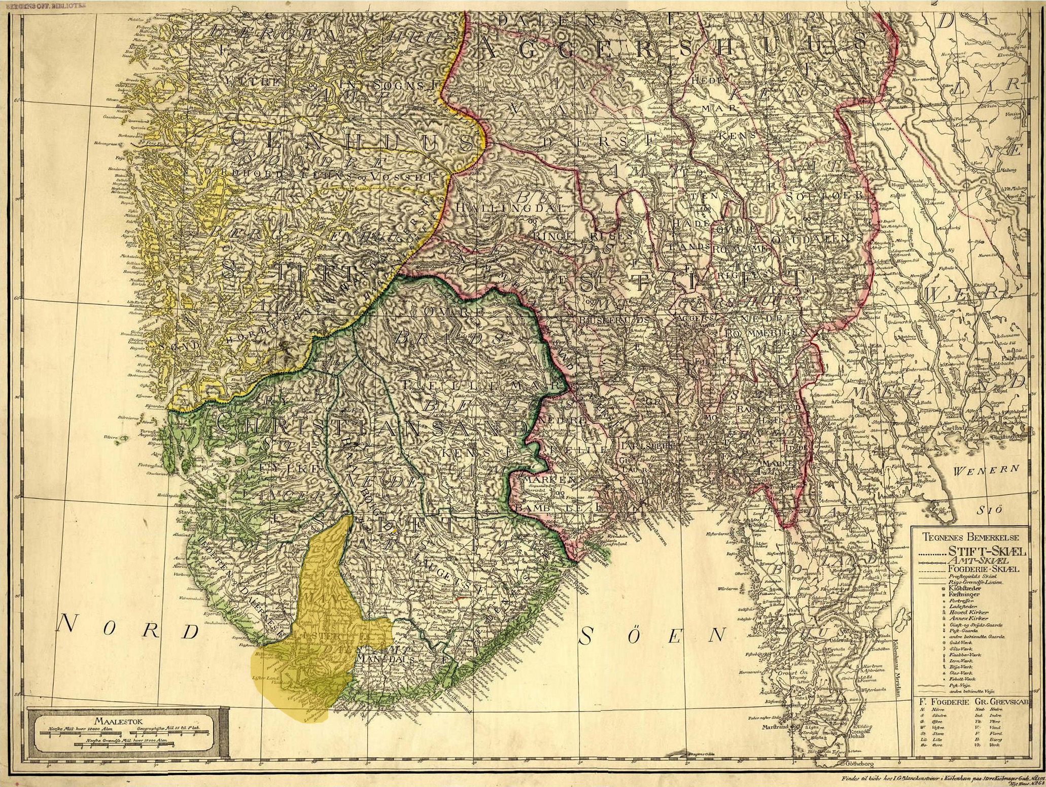 Lister fogderi. Made from Pontoppidans map from 1785